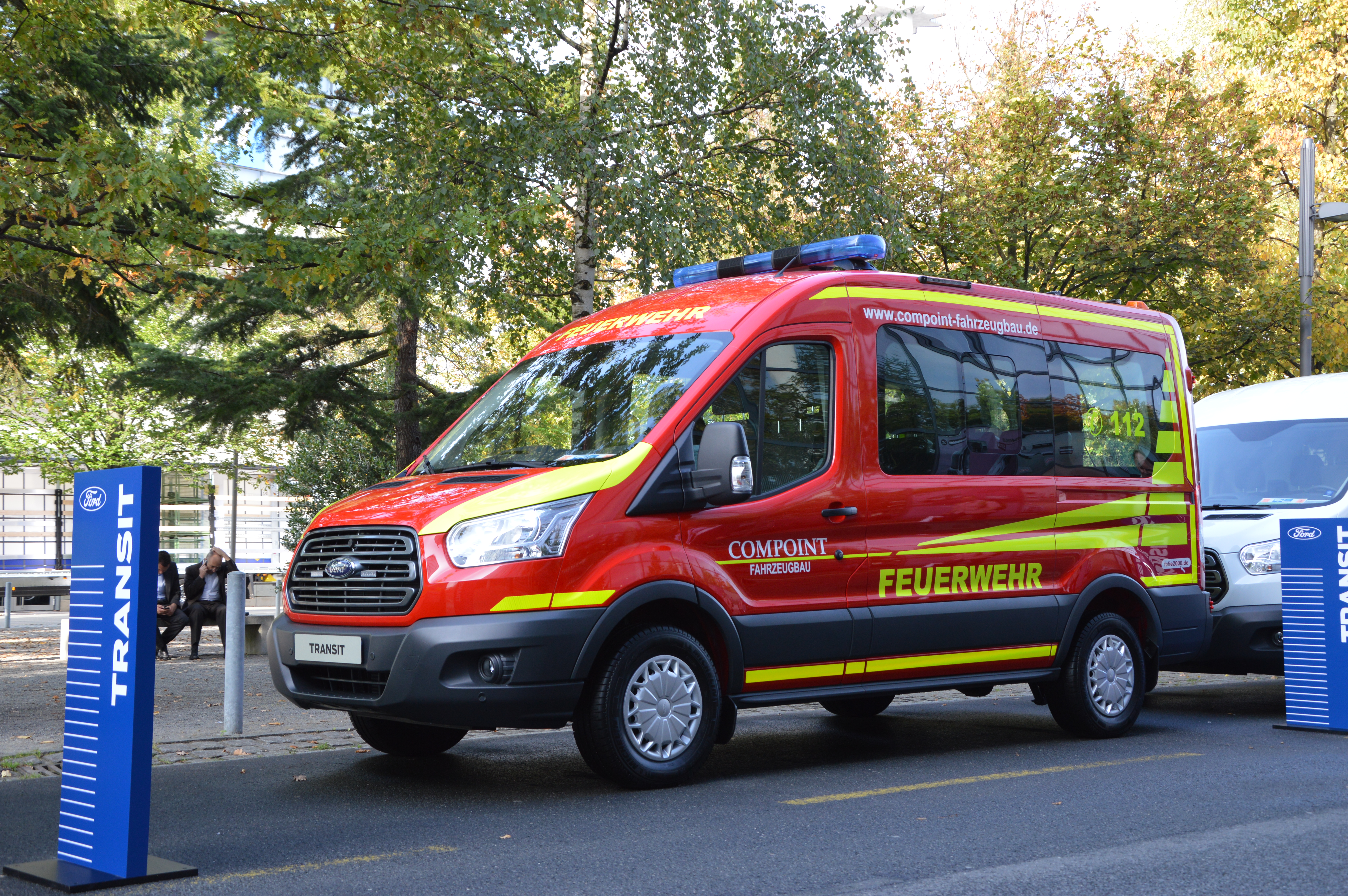 Ford Transit (model 2014). Fire engine. Photo taken at exhibition IAA 2014 in Hanover, Germany